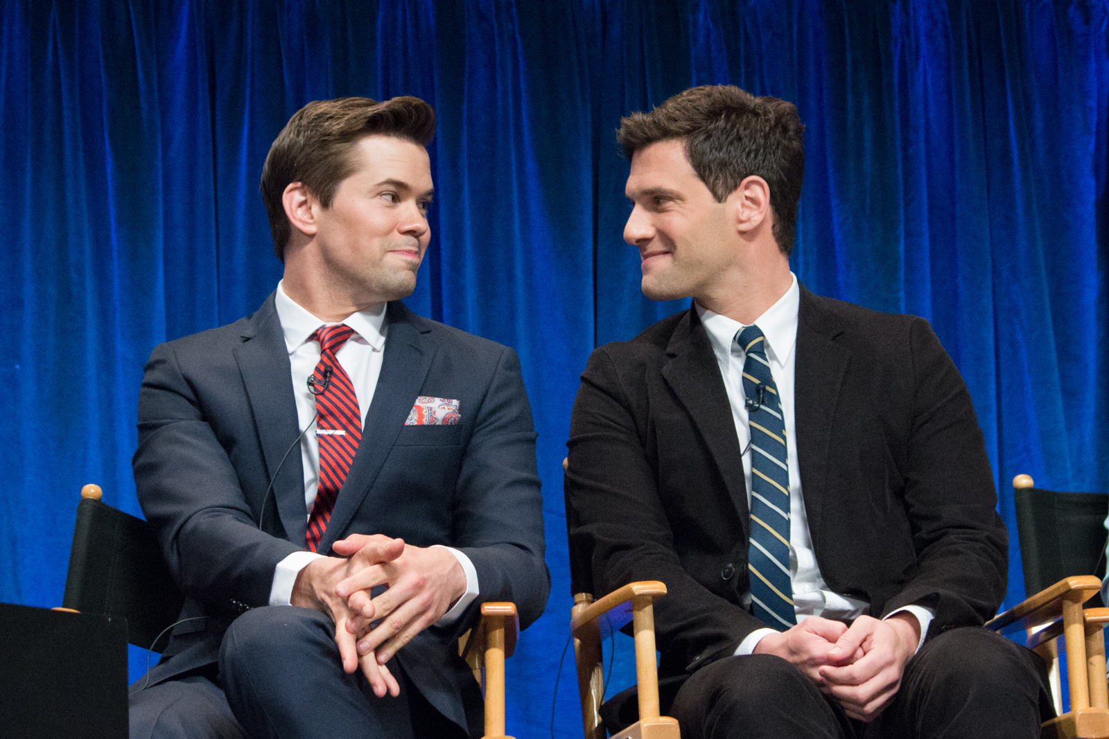 Andrew Rannells and Justin Bartha at the PaleyFest 2013 panel on the TV show "The New Normal"